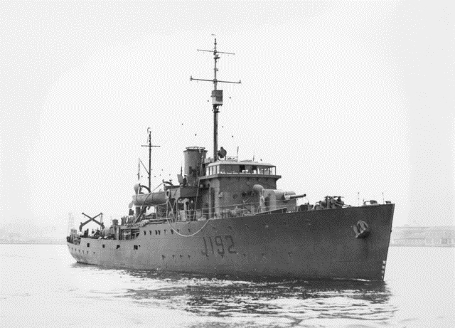 Australian Bathurst class minesweepimg sloop HMAS Kalgoorlie in Sydney Harbour during World War II.